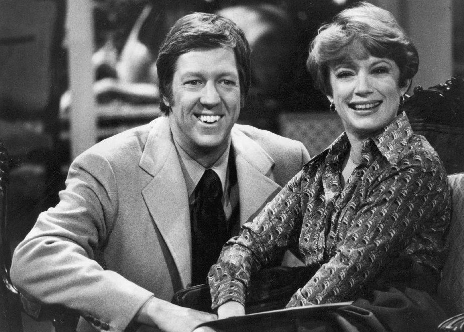 Photo of David Hartman and Nancy Dussault from the television program Good Morning America.